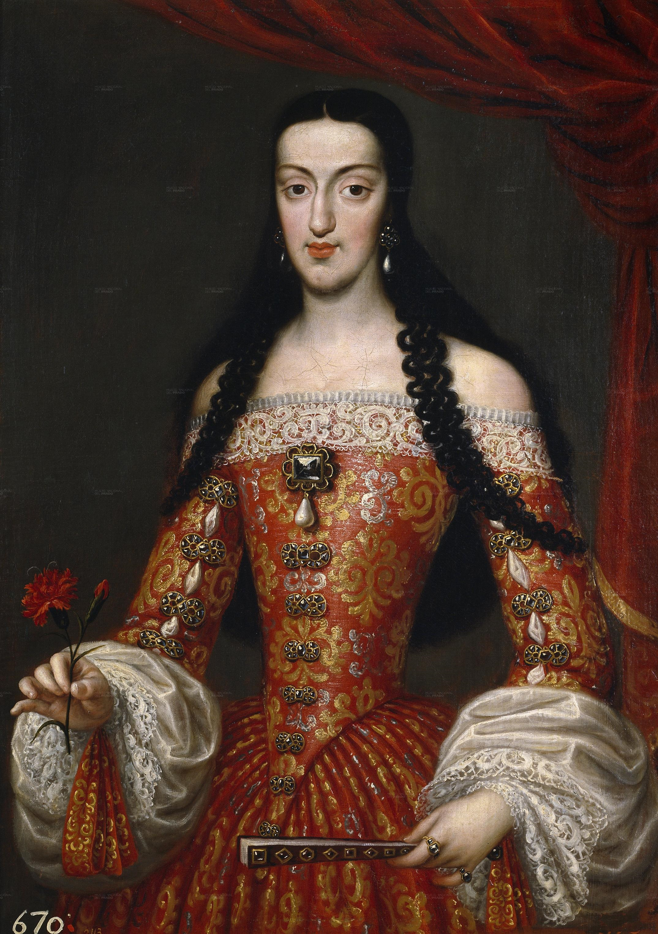 Marie Louise of Orléans (Paris, 26 March 1662, - Madrid, 12 February 1689), Queen Consort of Spain from 1679 to 1689 as the first wife of King Charles II of Spain.